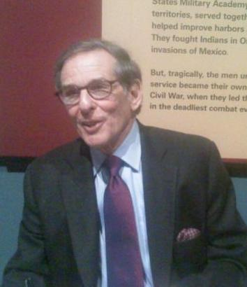 Robert Caro, American biography author